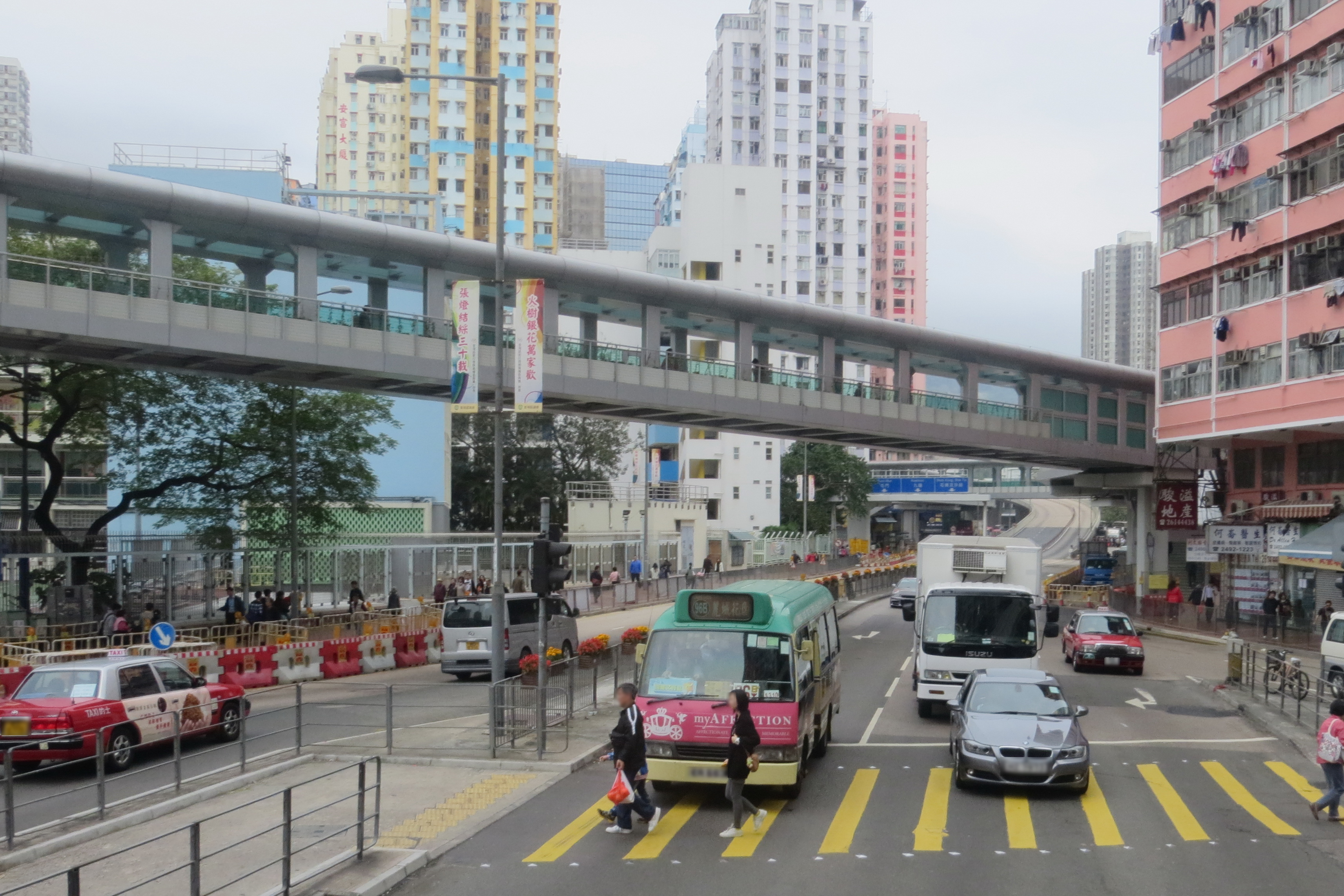 Footbridge A along Tai Ho Road, Tsuen Wan, Hong Kong.